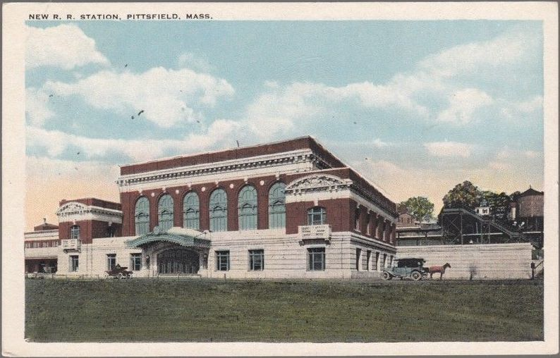 Early white border postcard of Pittsfield Union Station